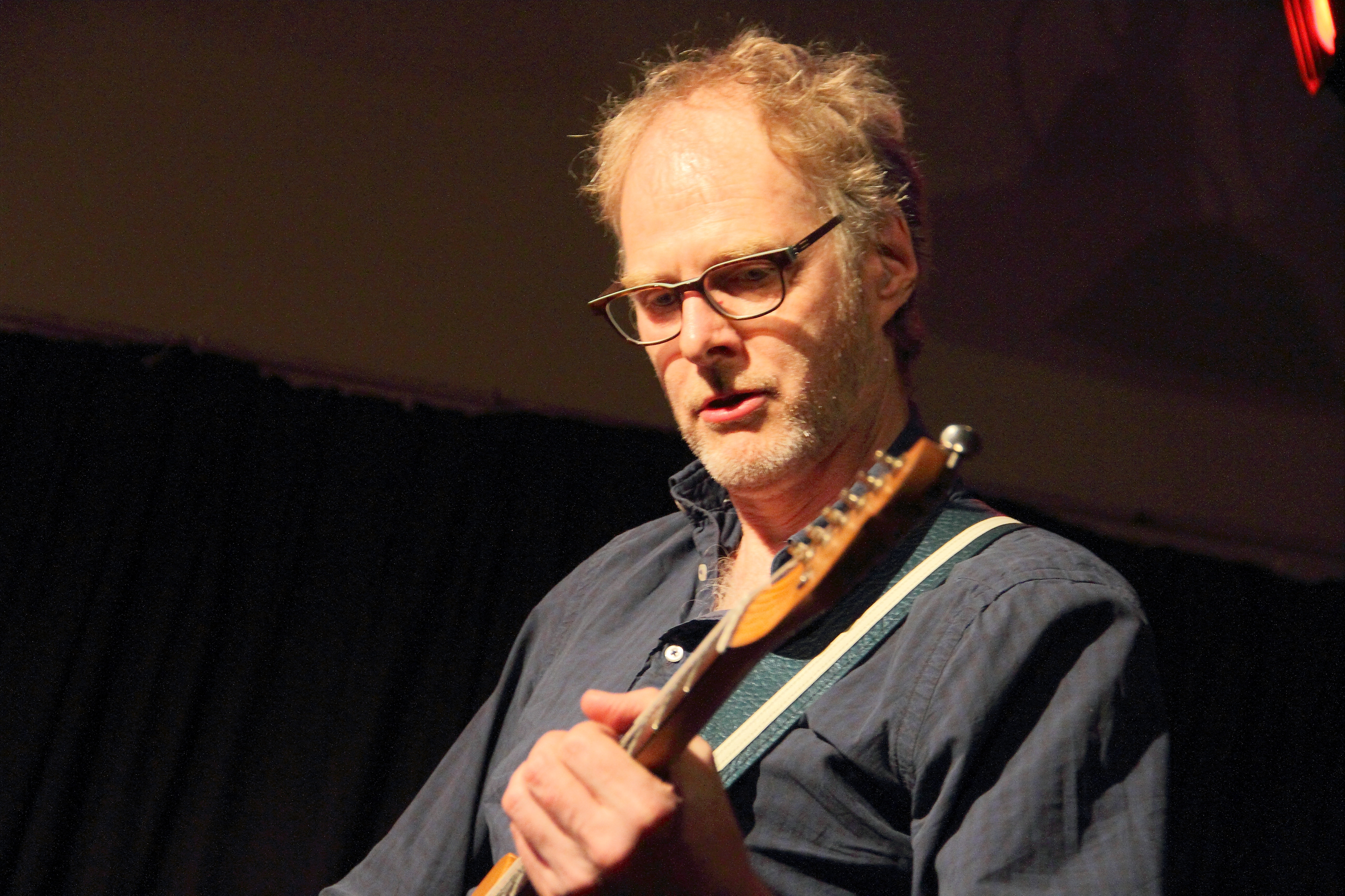 Grid Mesh are Frank Paul Schubert (as, ss), Christof Thewes (pos), Andreas Willers (g) & Willi Kellers (dr). Here in concert at Club W71, Weikersheim.